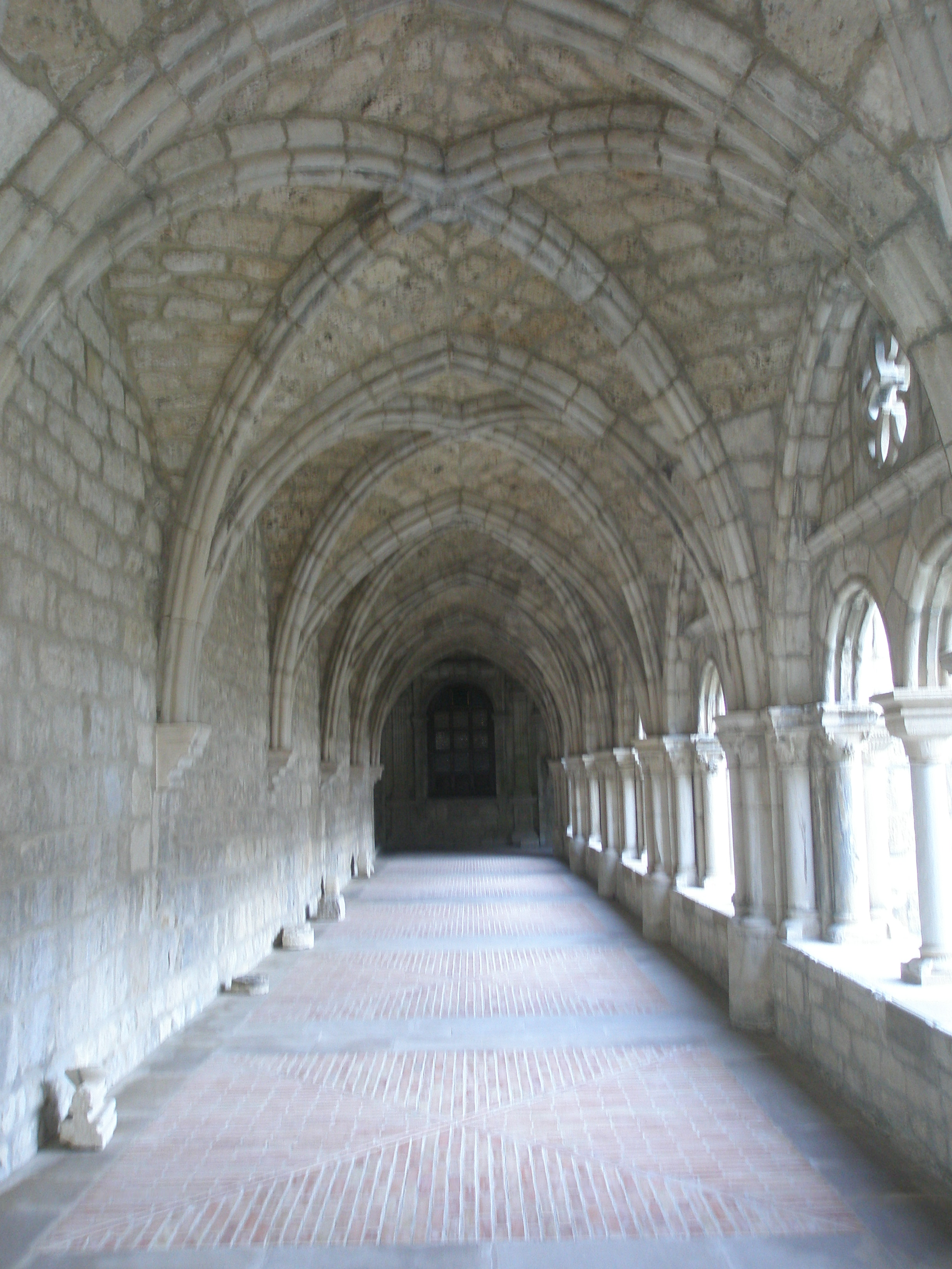 A prety ancient building.